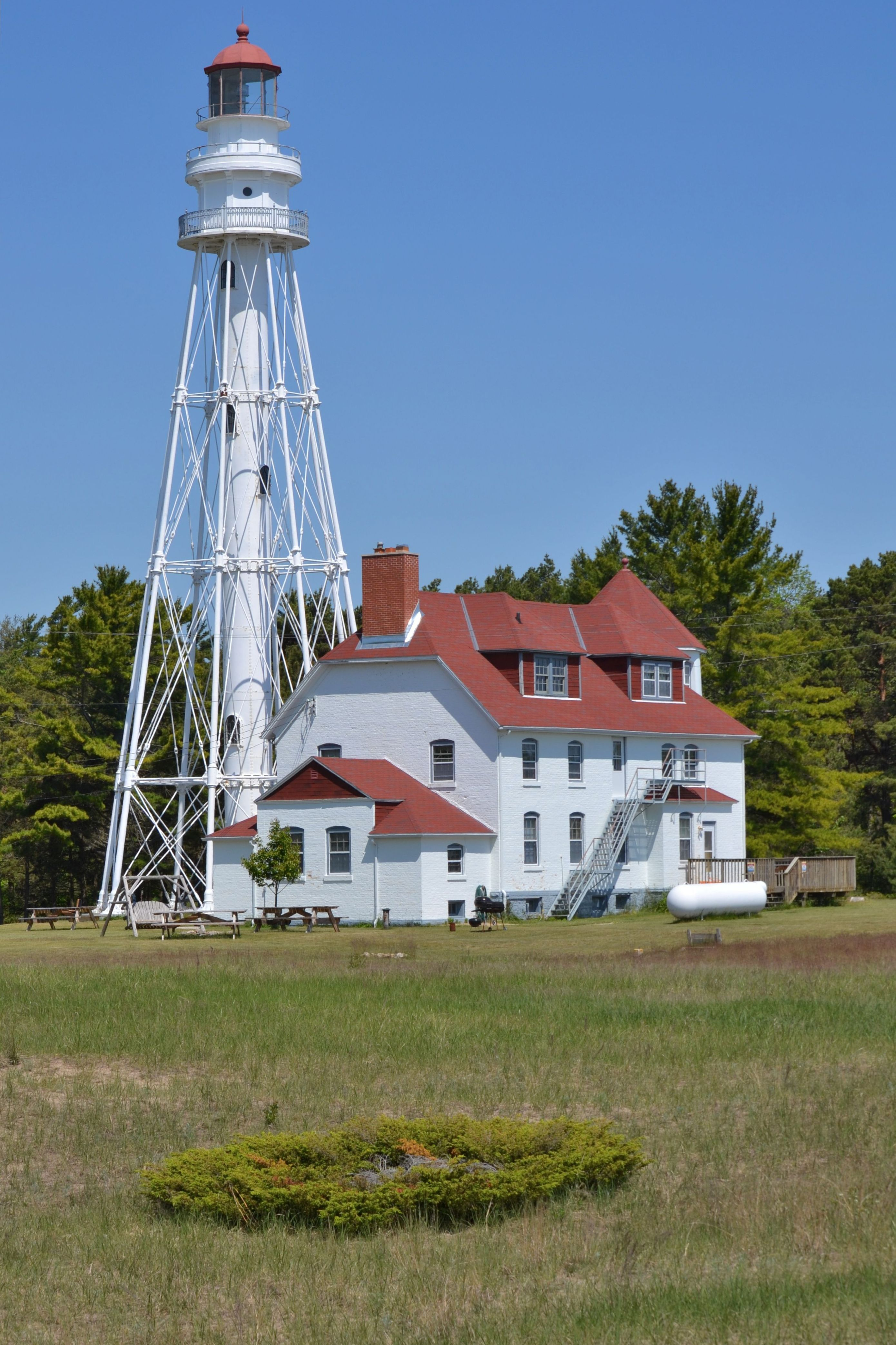 Rawley Point Light Station